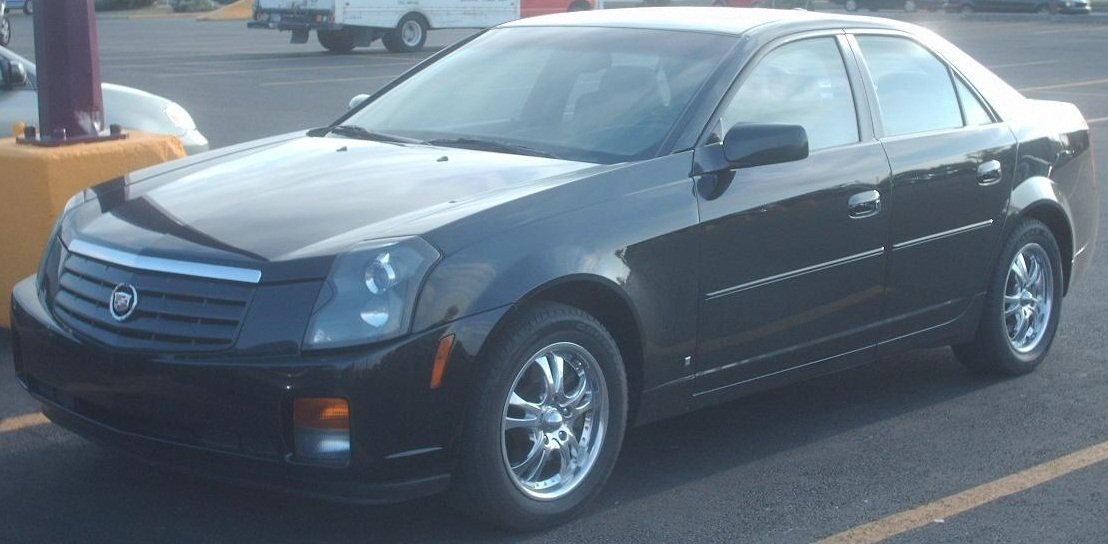 2006-2007 Cadillac CTS photographed in Dollard Des Ormeaux, Quebec, Canada.